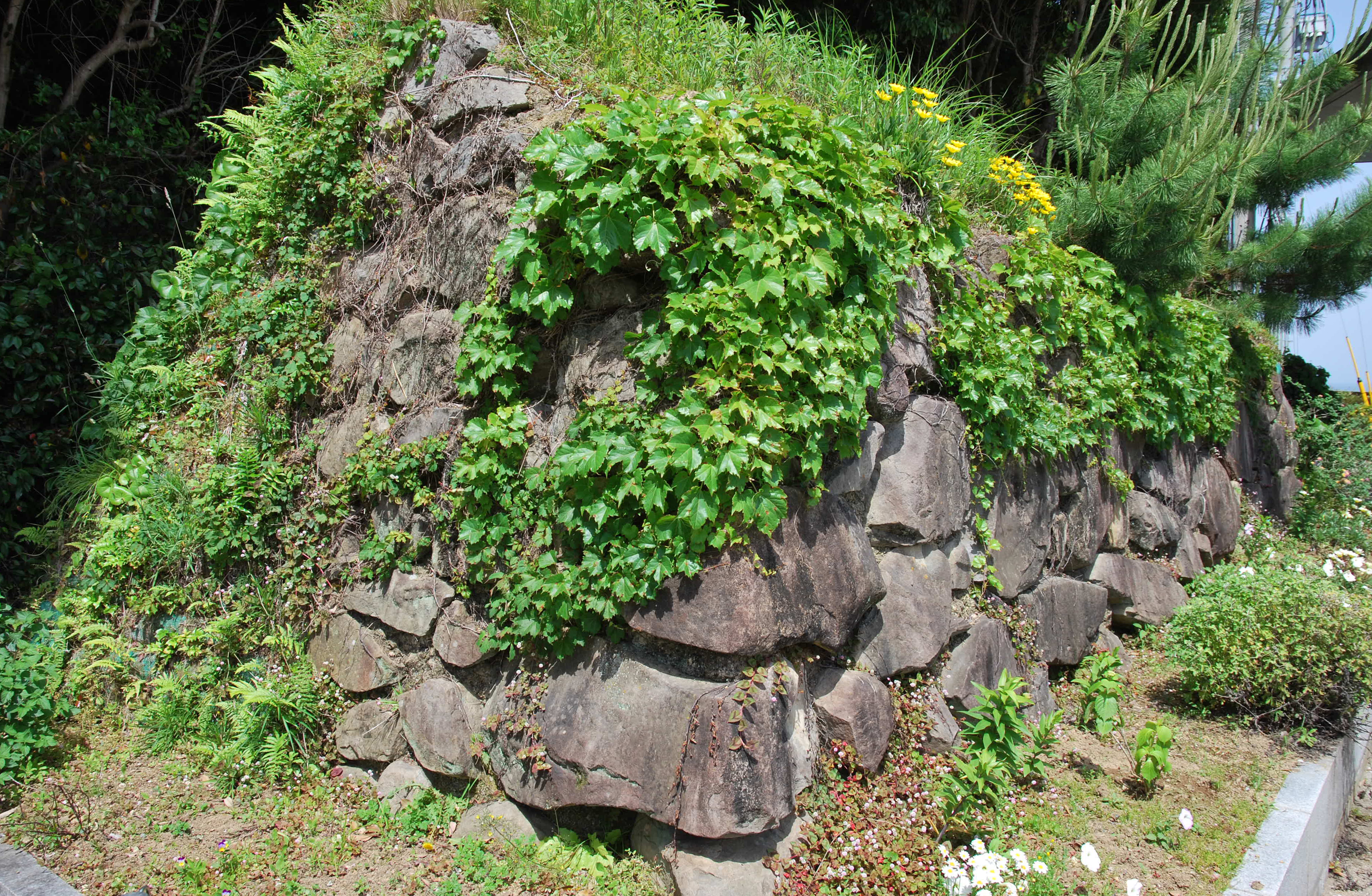 Rebuilt stone wall of Urado-jō